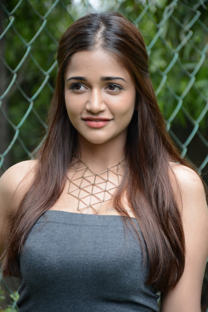 Image representing Anaika Soti